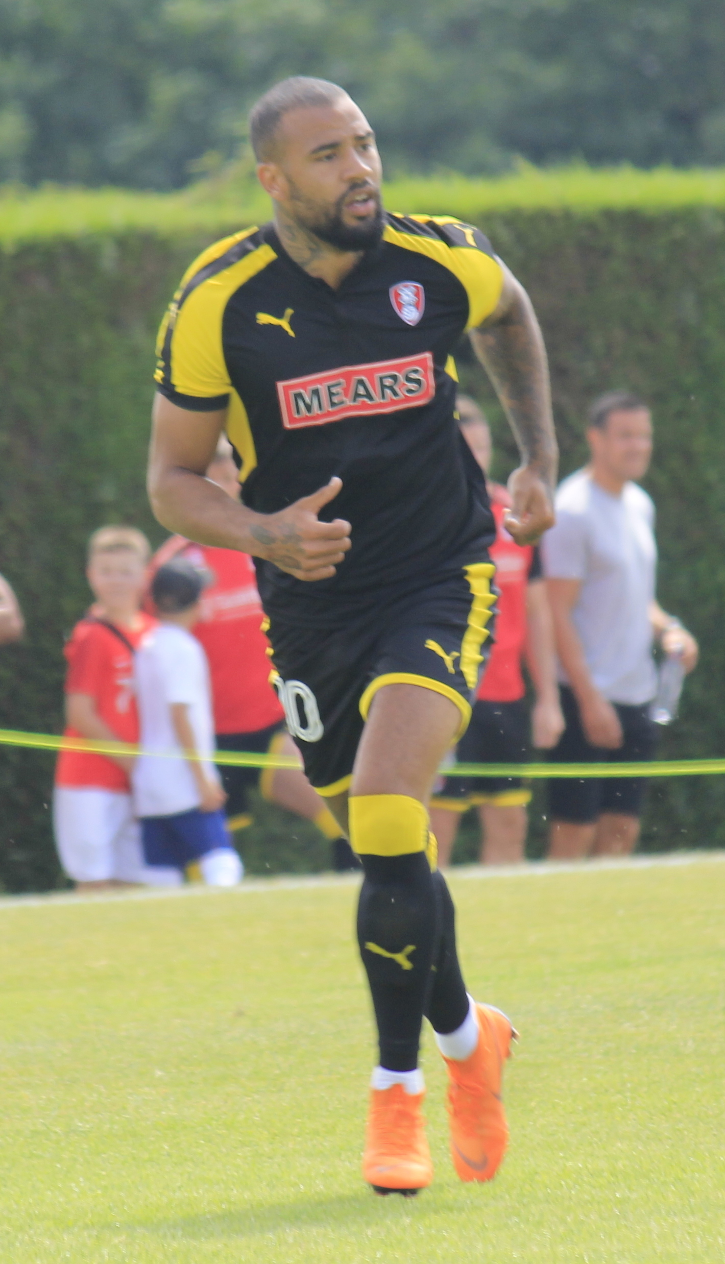 Parkgate Fc v Rotherham Utd 2018 (36)